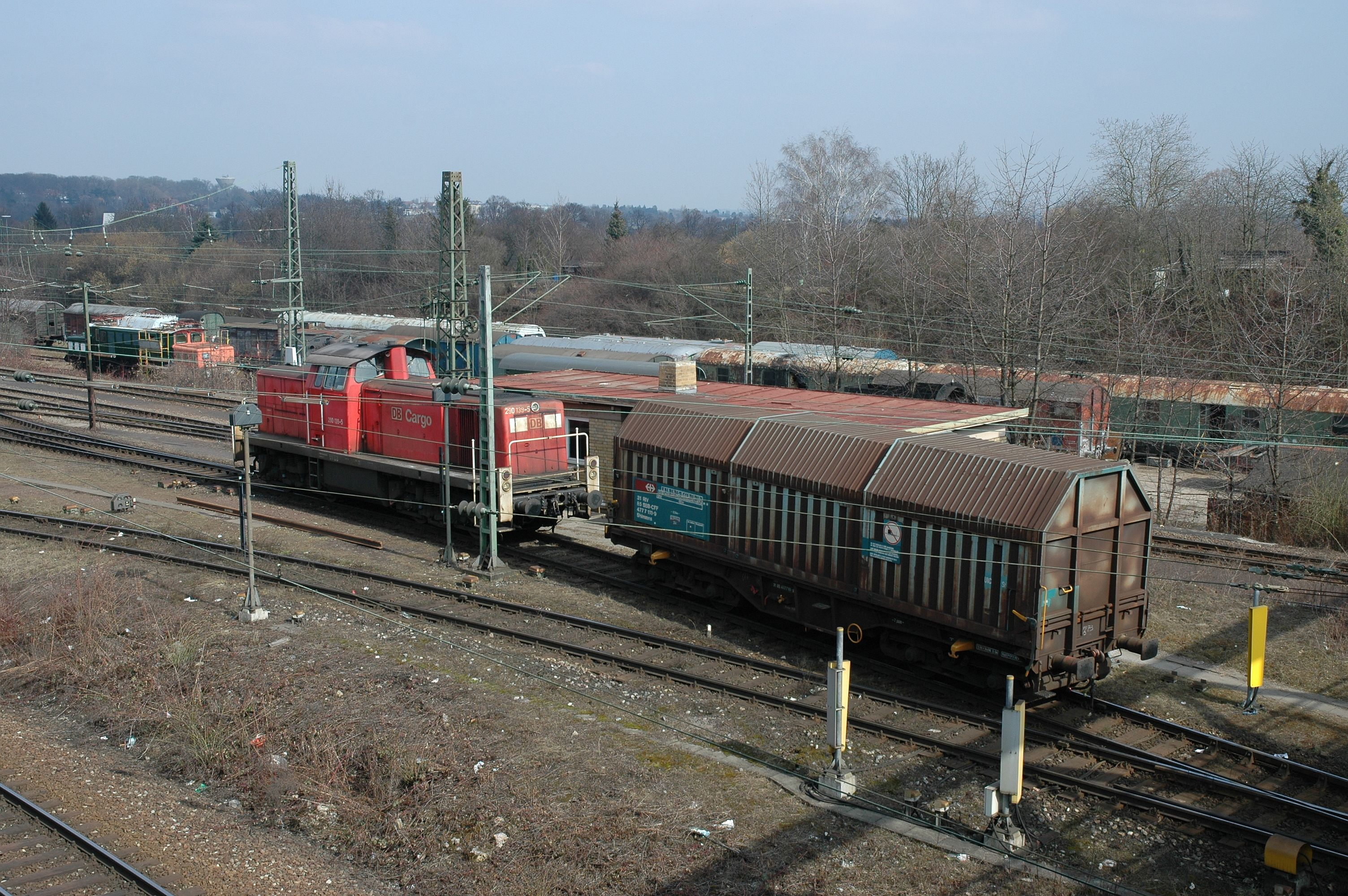 hump of Kornwestheim classification yard (near Stuttgart, Germany)